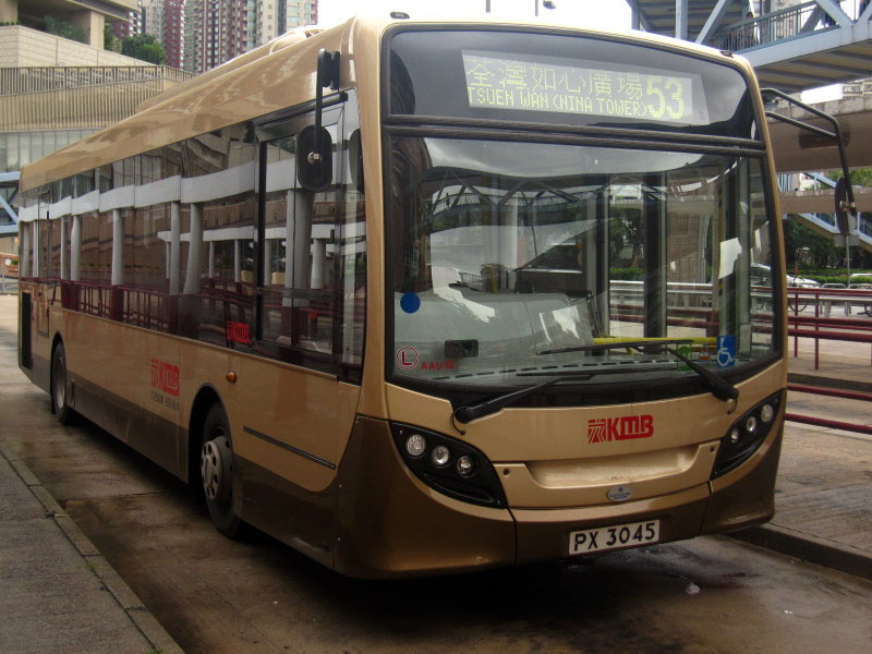 Kowloon Motor Bus' Alexander Dennis Enviro200 Dart midibus (AAU12/PX3045) staying in Yuen Long (East) Bus Terminus between duties. This bus was shown in Euro Bus Expo 2010 before delivery.